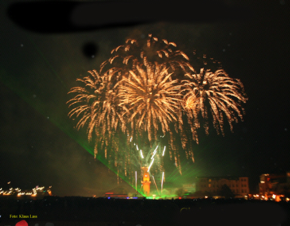 Lighthouse in flames, big event in Warnemünde every new years evening.